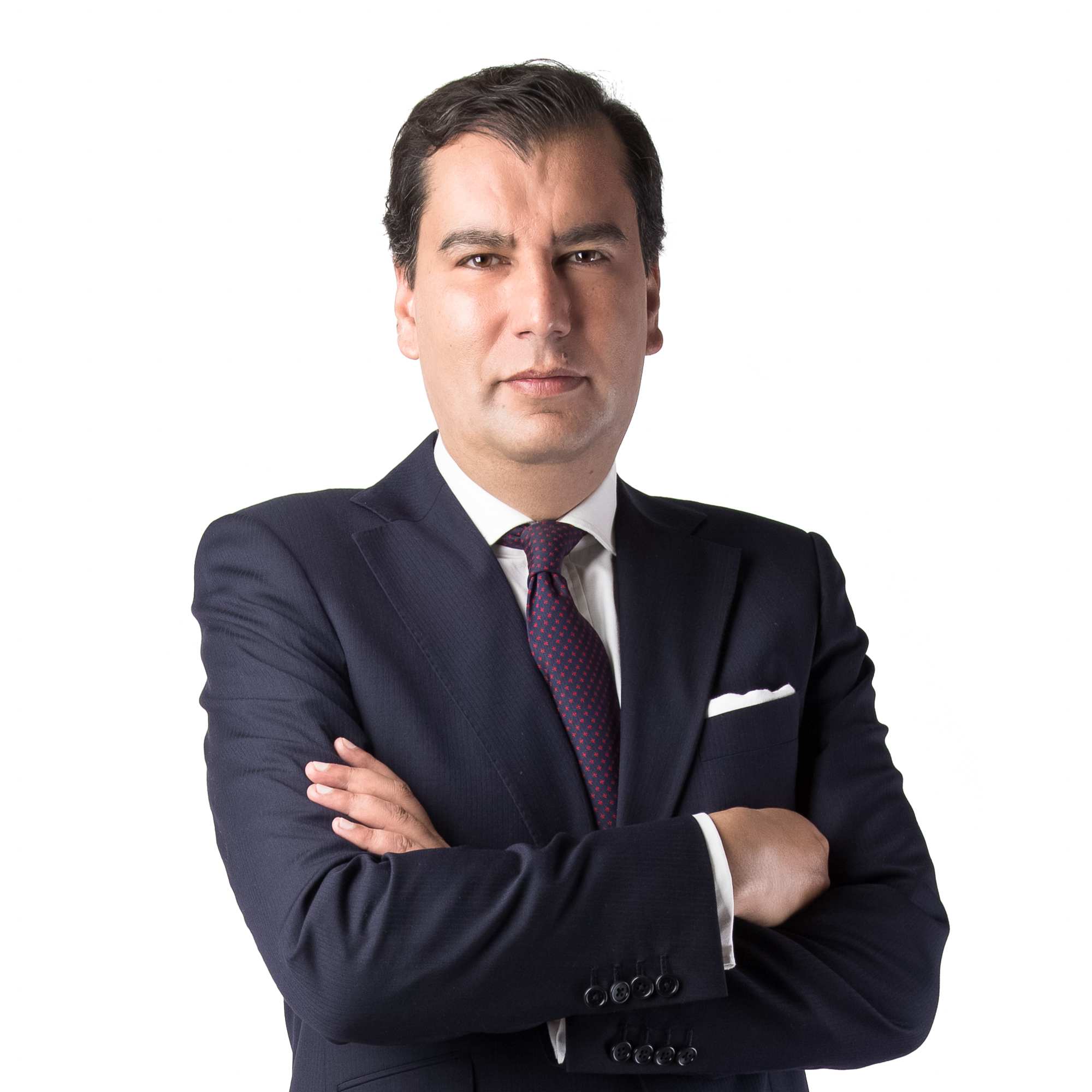 Photo of Abrar Mir taken in early December.